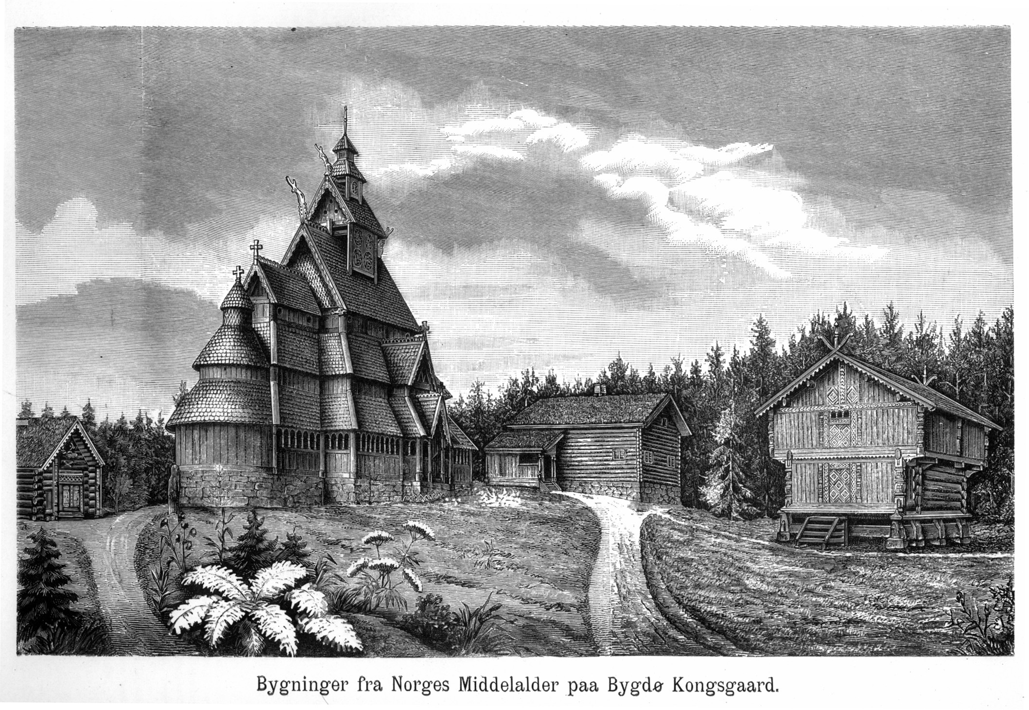 King Oscar II's open air museum near Oslo, 1888